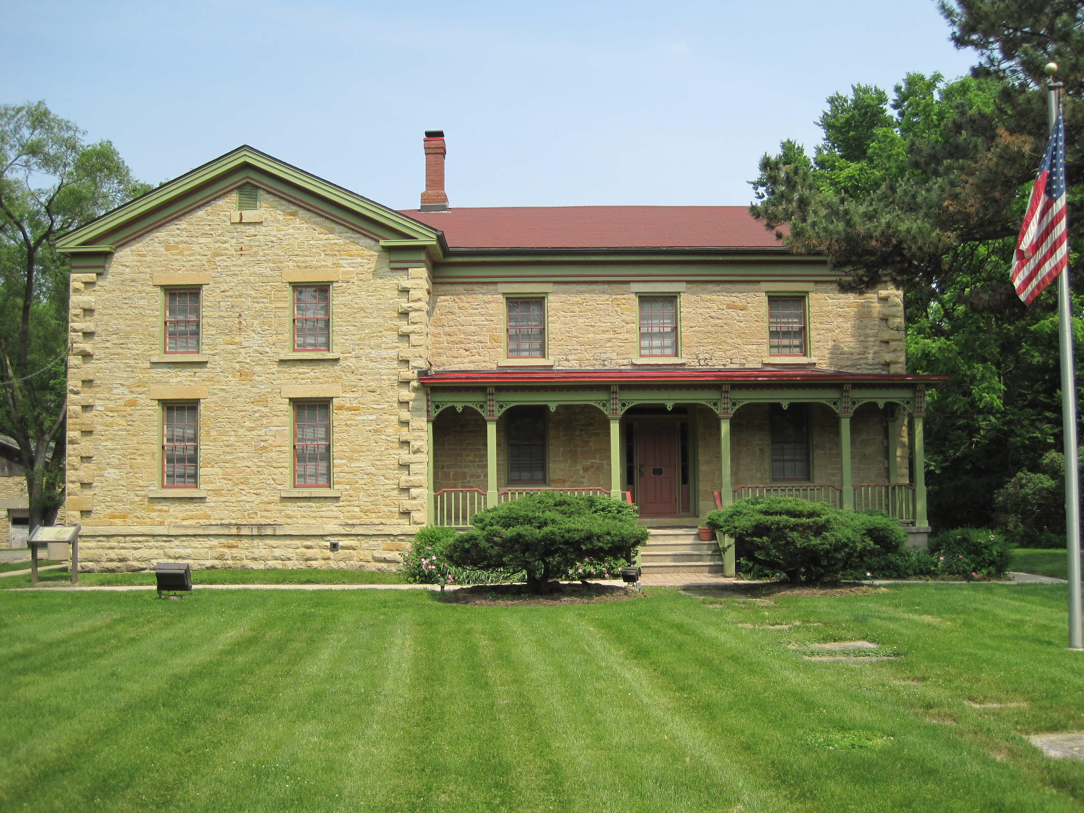 I (Teemu08 (talk)) took this image on June 3, 2011.